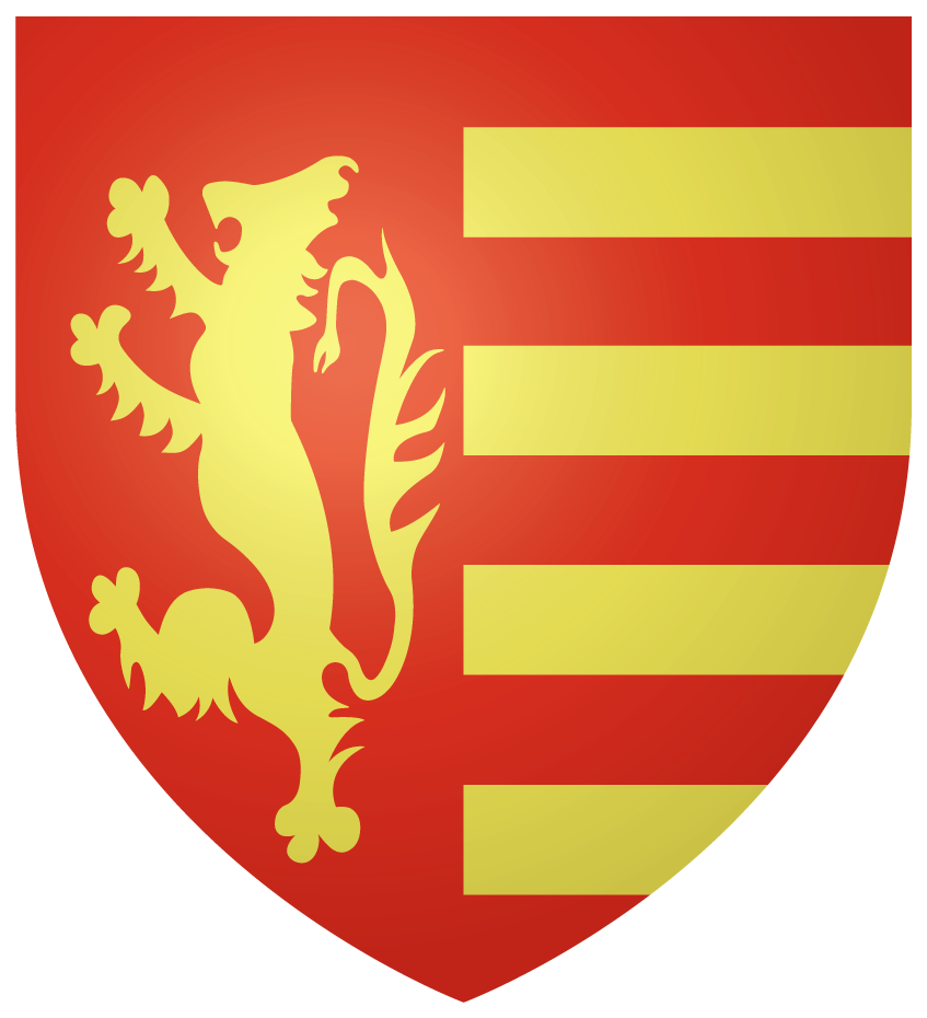 Blason de la Famille "Seguin d'Escoussans", bâtisseurs et seigneurs du Château de Langoiran